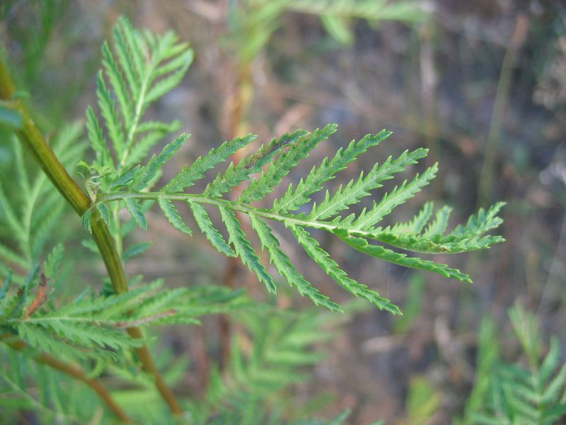 Rainfarn (Tanacetum vulgare), Blatt